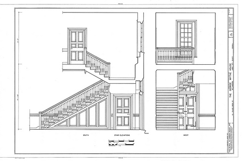 Drawing of the interior of the George Wythe House, 101 Palace Green Street, Williamsburg, Virginia. Courtesy of the Historic American Engineering Record, The Library of Congress, Washington, D. C. Retouched by MarmadukePercy